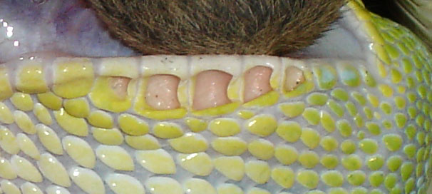 labial pits Morelia viridis